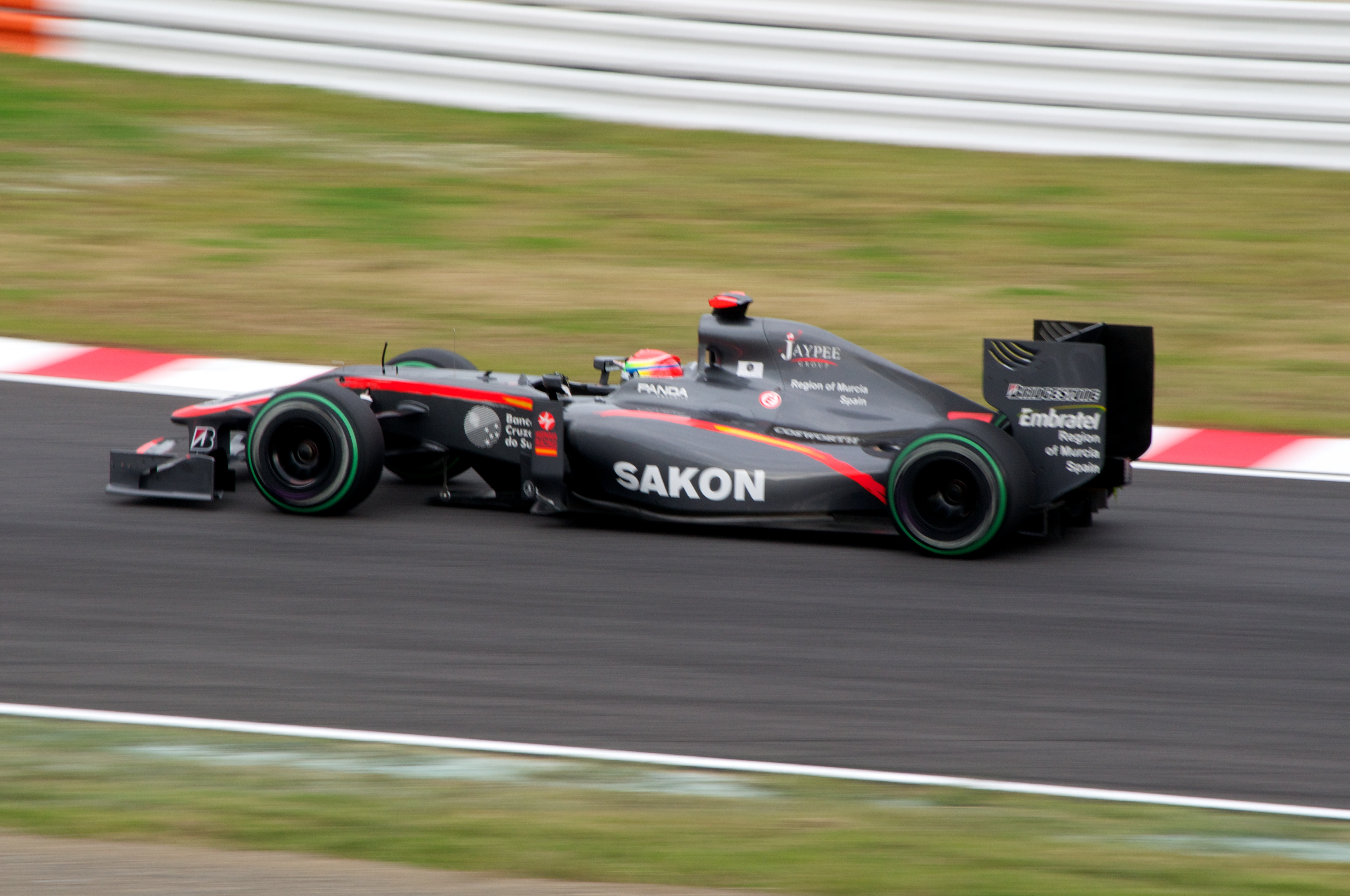 Sakon Yamamoto - HRT